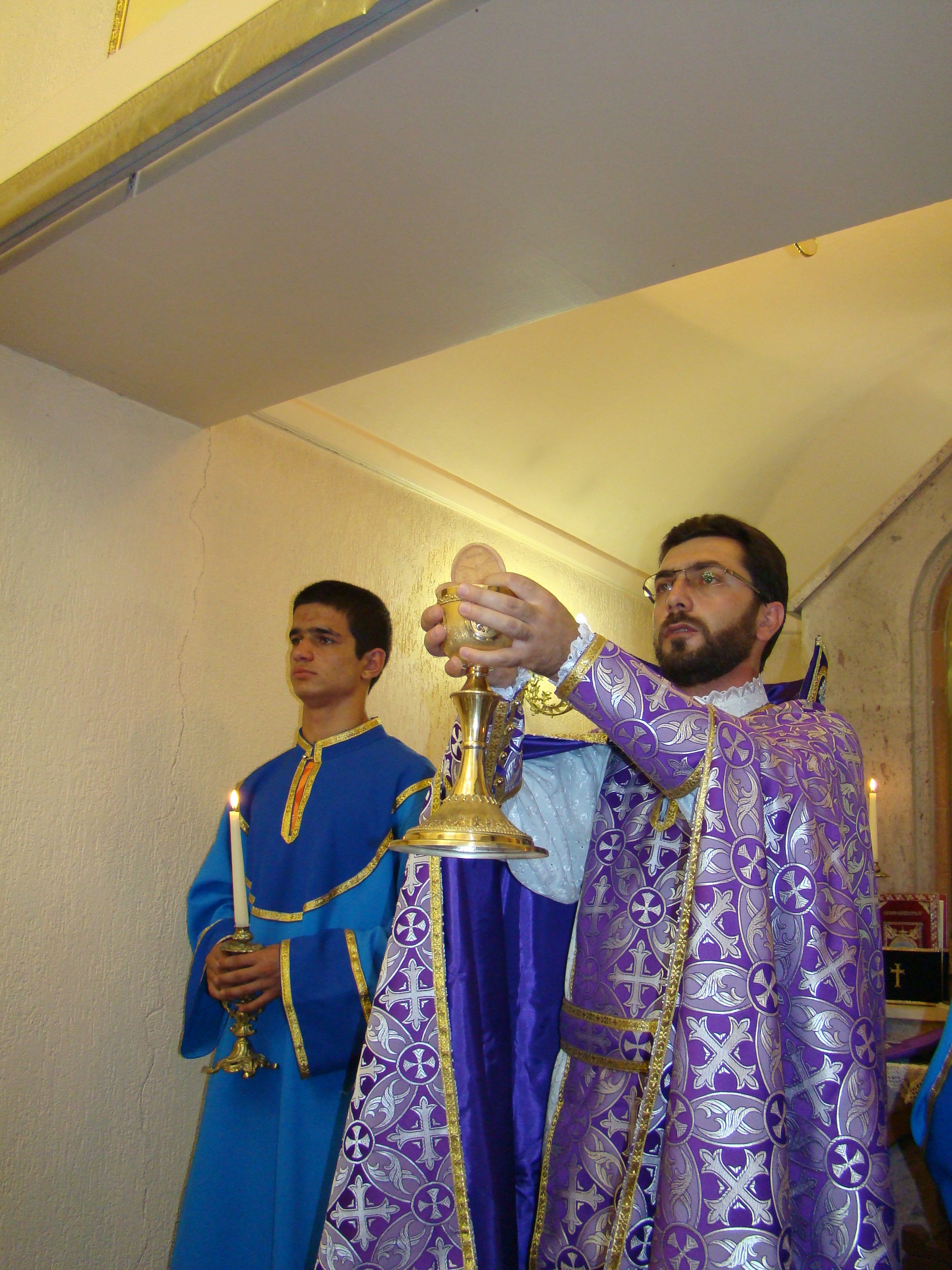 Sourb Gevorg Sacraments